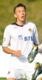 Anton Grigoryev as a player of PFC CSKA Moscow Youth